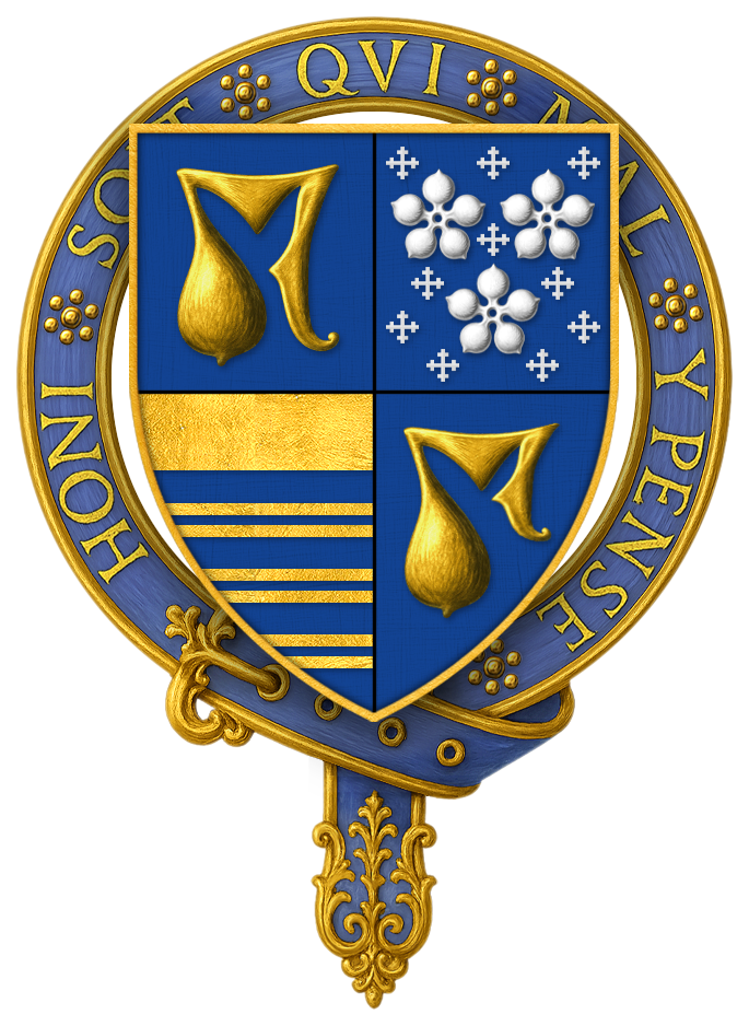 Sir John Conyers, KG Reference: The Conyers window in the parish church at Hutton Rudby, Yorkshire. The arms displayed, within a Garter of the Order, are quarterly: 1 and 4, azure a maunch or (for Conyers); 2, azure semy of cross crosslets three cinquefoils argent (for Darcy - though six pointed in the window); 3. azure three bars gemel and a chief or (for Meynell).